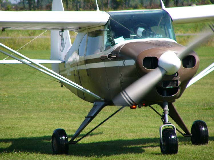 A Piper PA-22-135 Tri Pacer